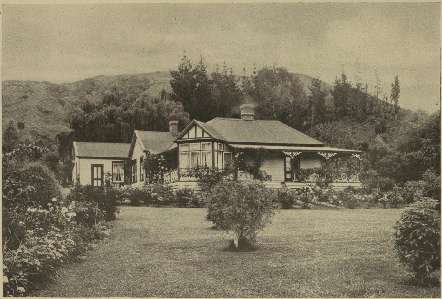 Tutira Homestead, Hawkes Bay, New Zealand - home of Herbert Guthrie-Smith. Photo from 1921 edition of Tutira: the story of a New Zealand sheep station.